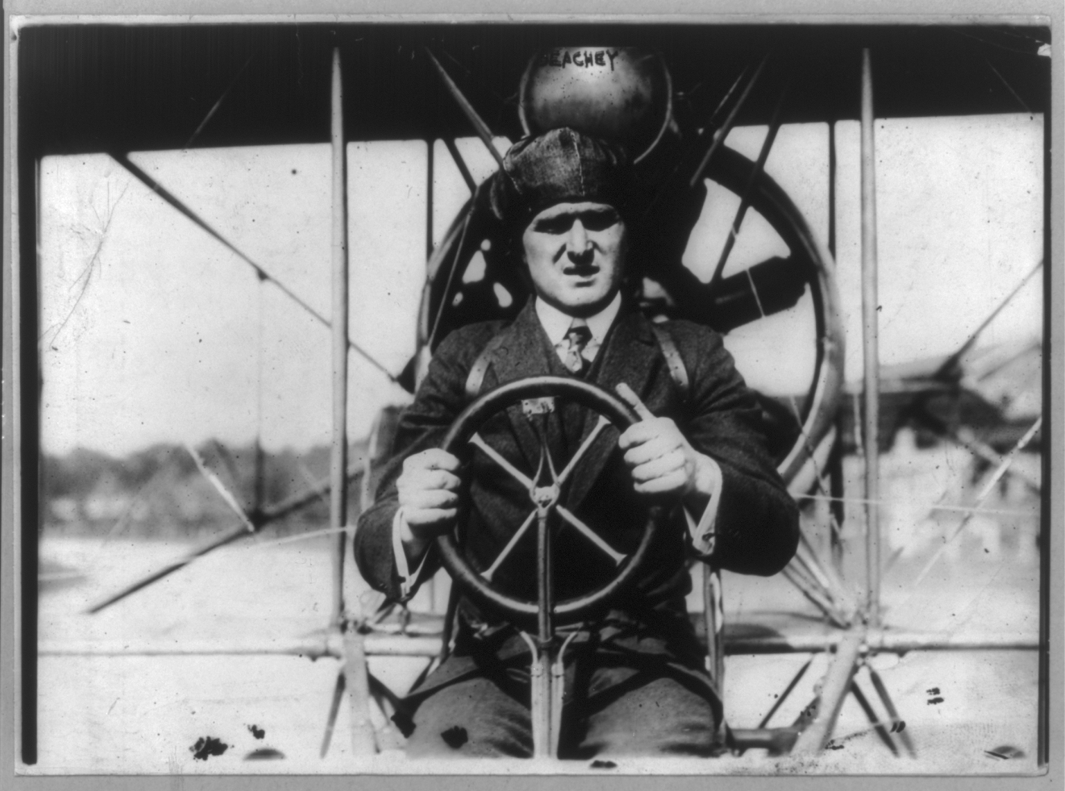 Lincoln Beachey